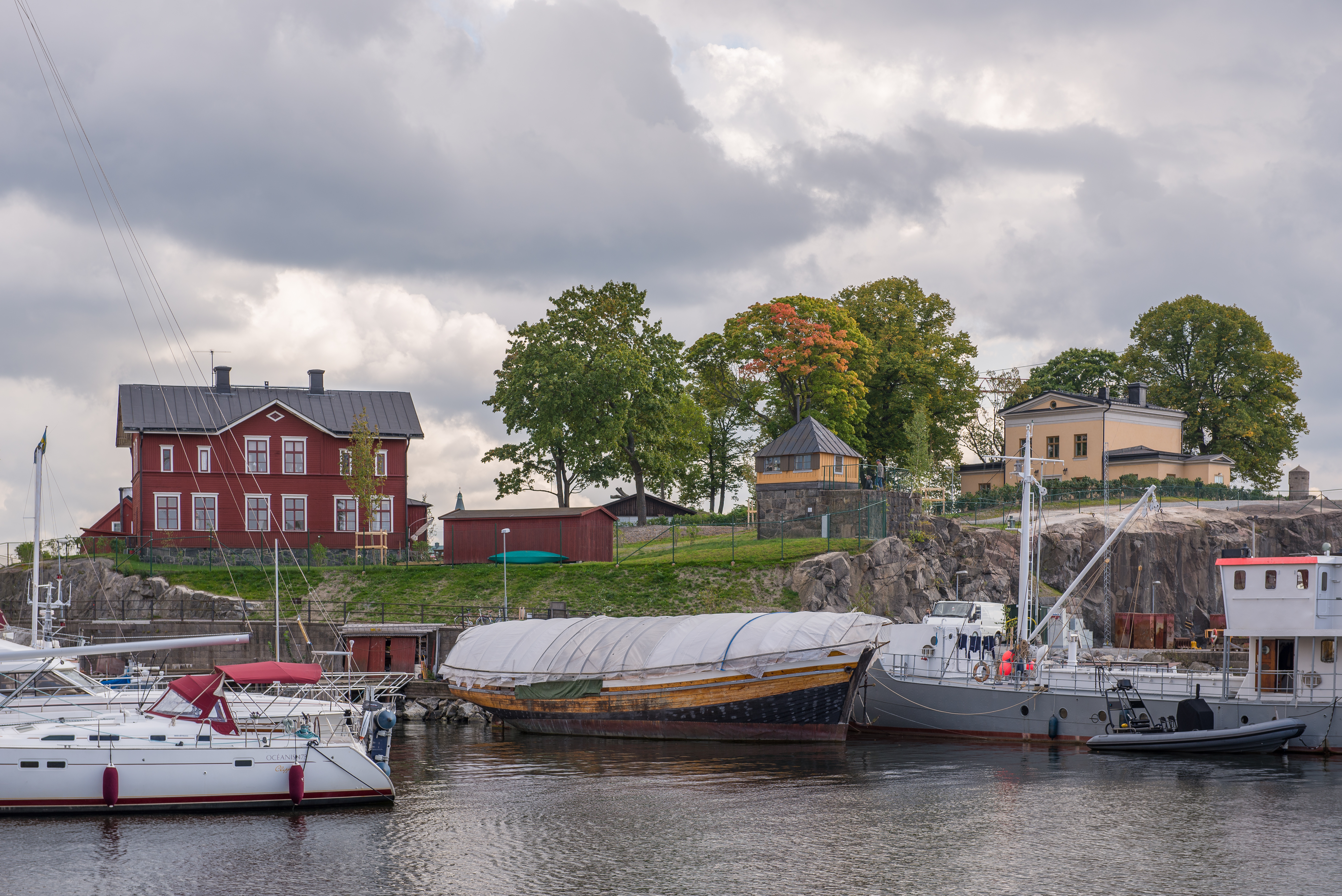 Buildings at Beckholmen, seen from Djurgården. Beckholmen is a small island and historic shipyard in central Stockholm, Sweden.